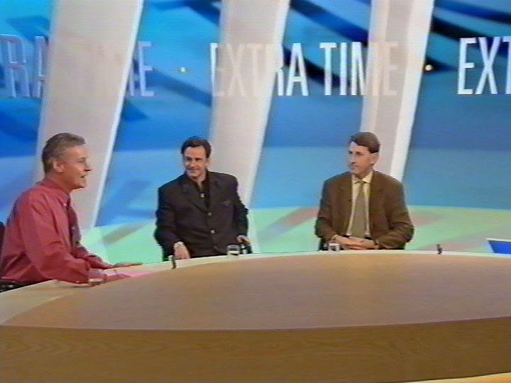 Still frame from animated virtual set for Scottish Television produced by Liquid Image.